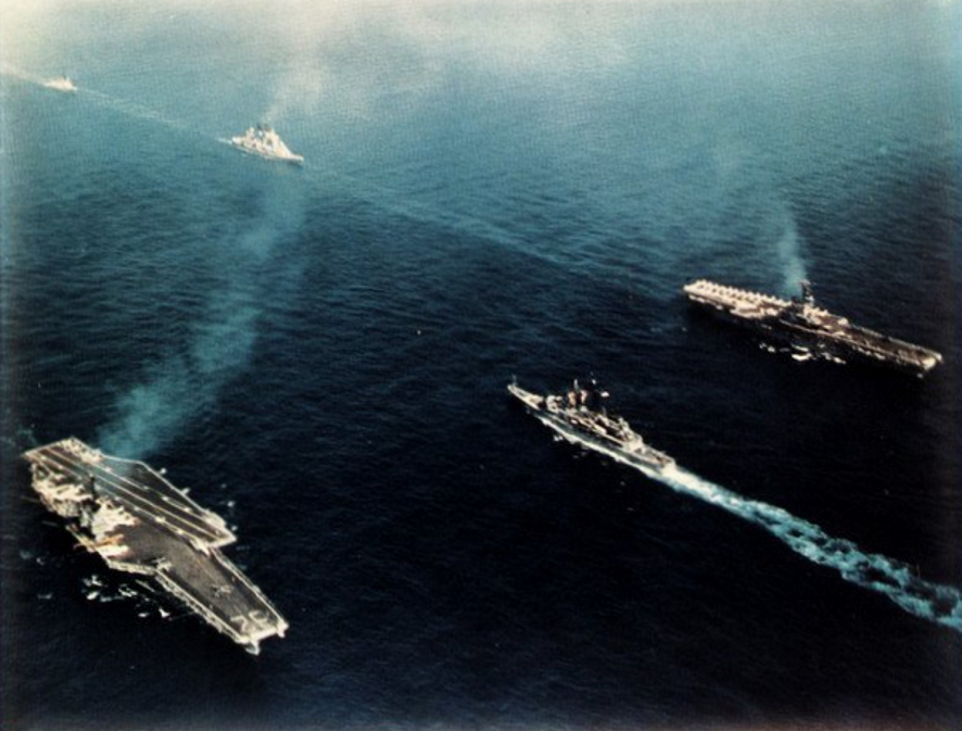 View of the parade on occasion of the 20th anniversary of the U.S. Navy's Sixth Fleet in the Mediterranean Sea on 25 June 1968: the fleet flagship, the guided missile cruiser USS Little Rock (CLG-4) passes the aircraft carriers USS Independence (CVA-62), foreground, and USS Shangri-La (CVA-38). The guided missile cruiser USS Columbus (CG-12) steams aft of Shangri-La.